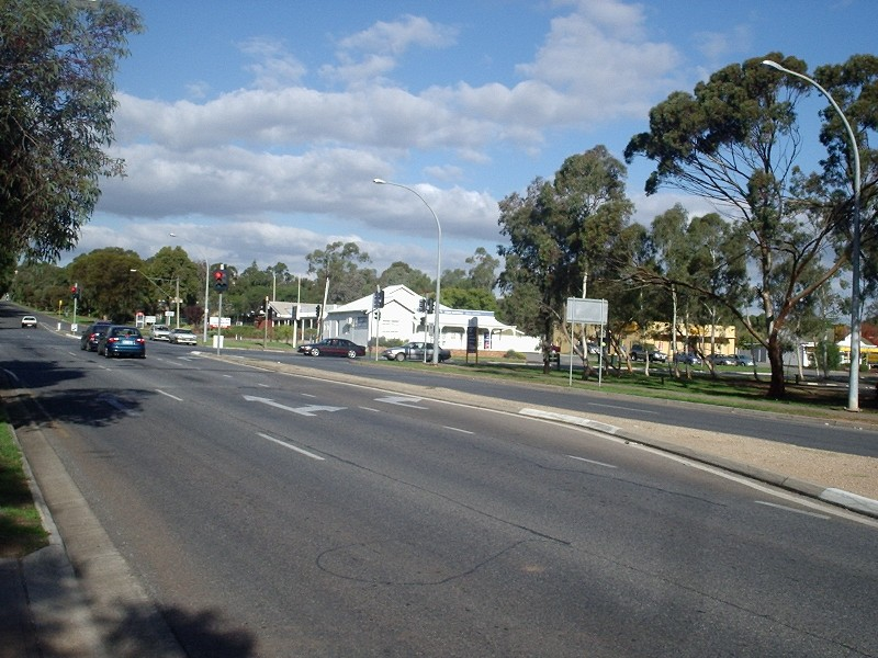 Allen Kesters' farmhouse (built early 20th century) in 2006. On bridge road, Para Hills, South Australia